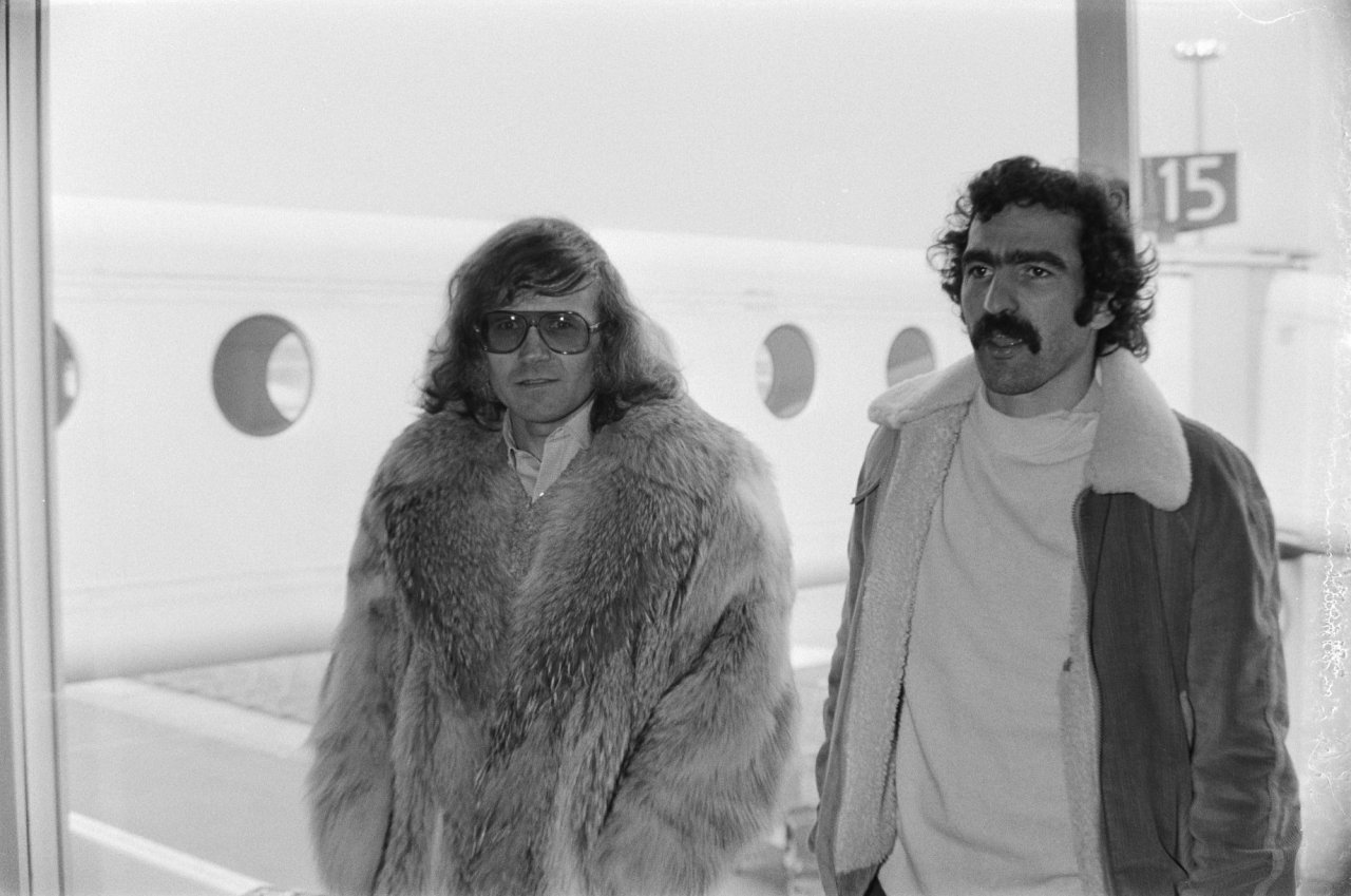 Gilbert Gress (left) and Raymond Domenech (right)